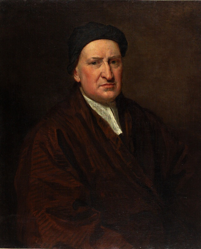 Walter Charleton MD (1619-1707), oil on canvas, dimensions: 76.2 x 63.5 cm